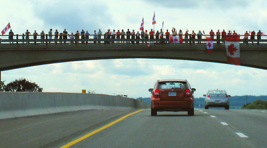 Off-duty fire, police, and medical response crews as well as the general public line overpasses such as this to pay respects to fallen soldiers in a repatriation ceremony in southern Ontario, Canada. The funeral procession, a convoy of vehicles, leave Trenton around 2:45 pm and travel to Toronto along Highway 401 where the body is turned over to the coroner. Most overpasses between Trenton and Toronto appear like this as the convoy passes.